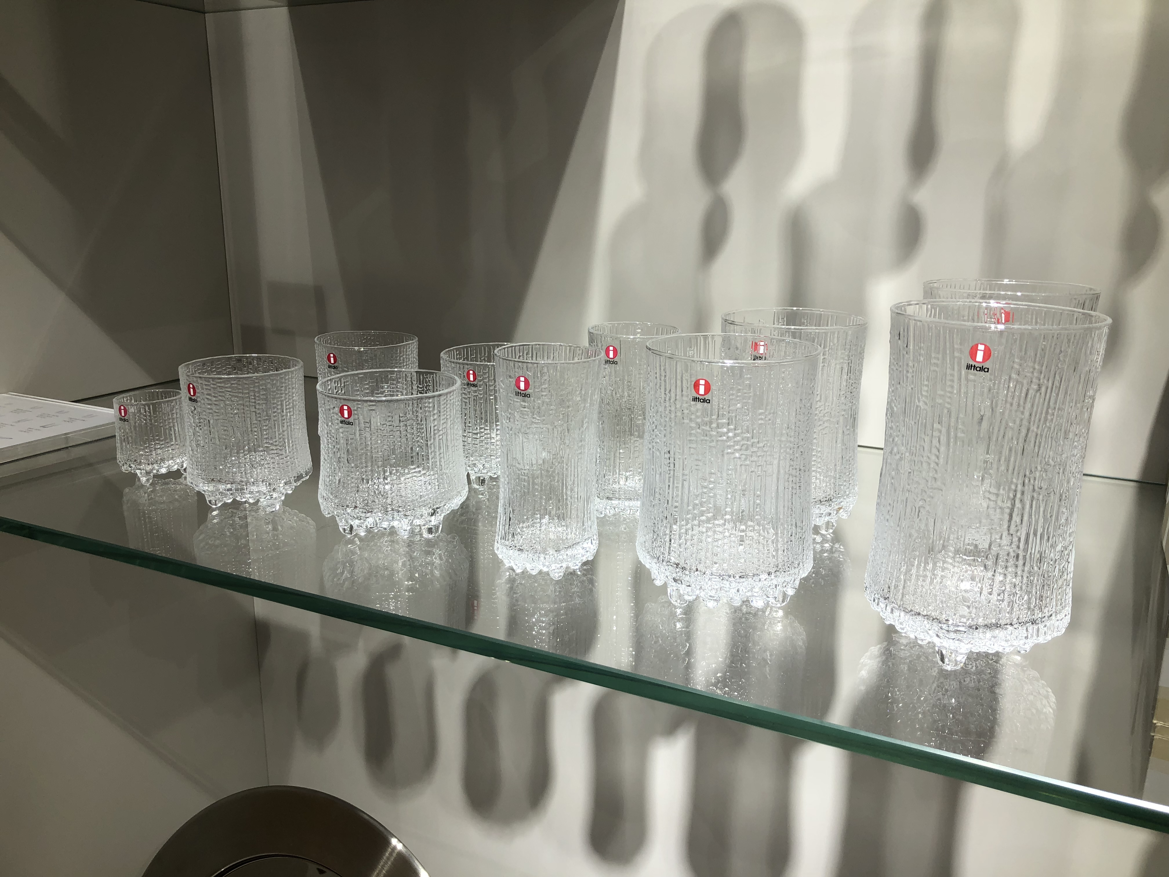 Iittala Ultima Thule series at Iittala Store at Pohjoisesplanadi Helsinki, Finland